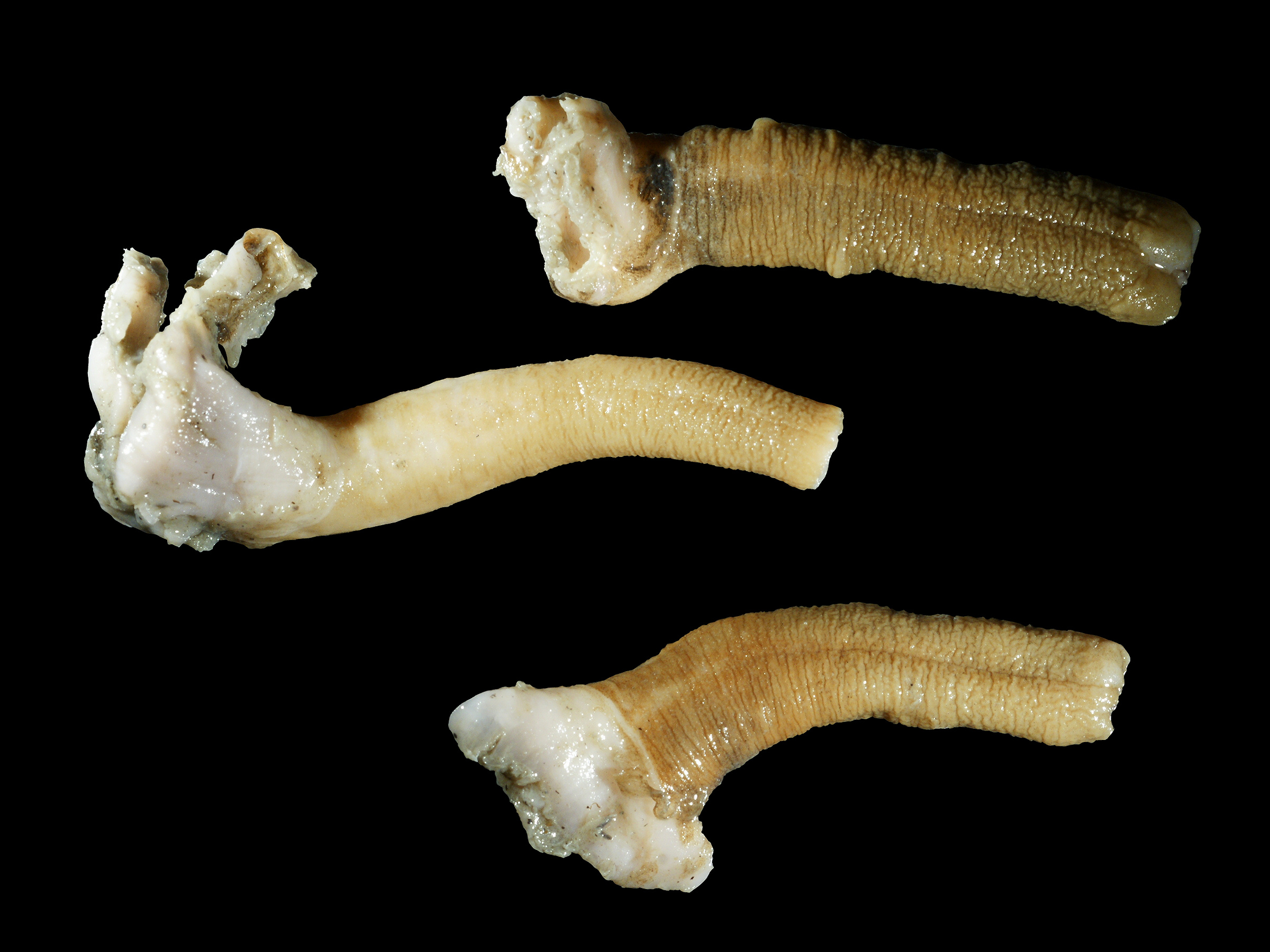 White piddock siphons (~30 mm each) form the Southern North Sea, Belgium. Studio image.